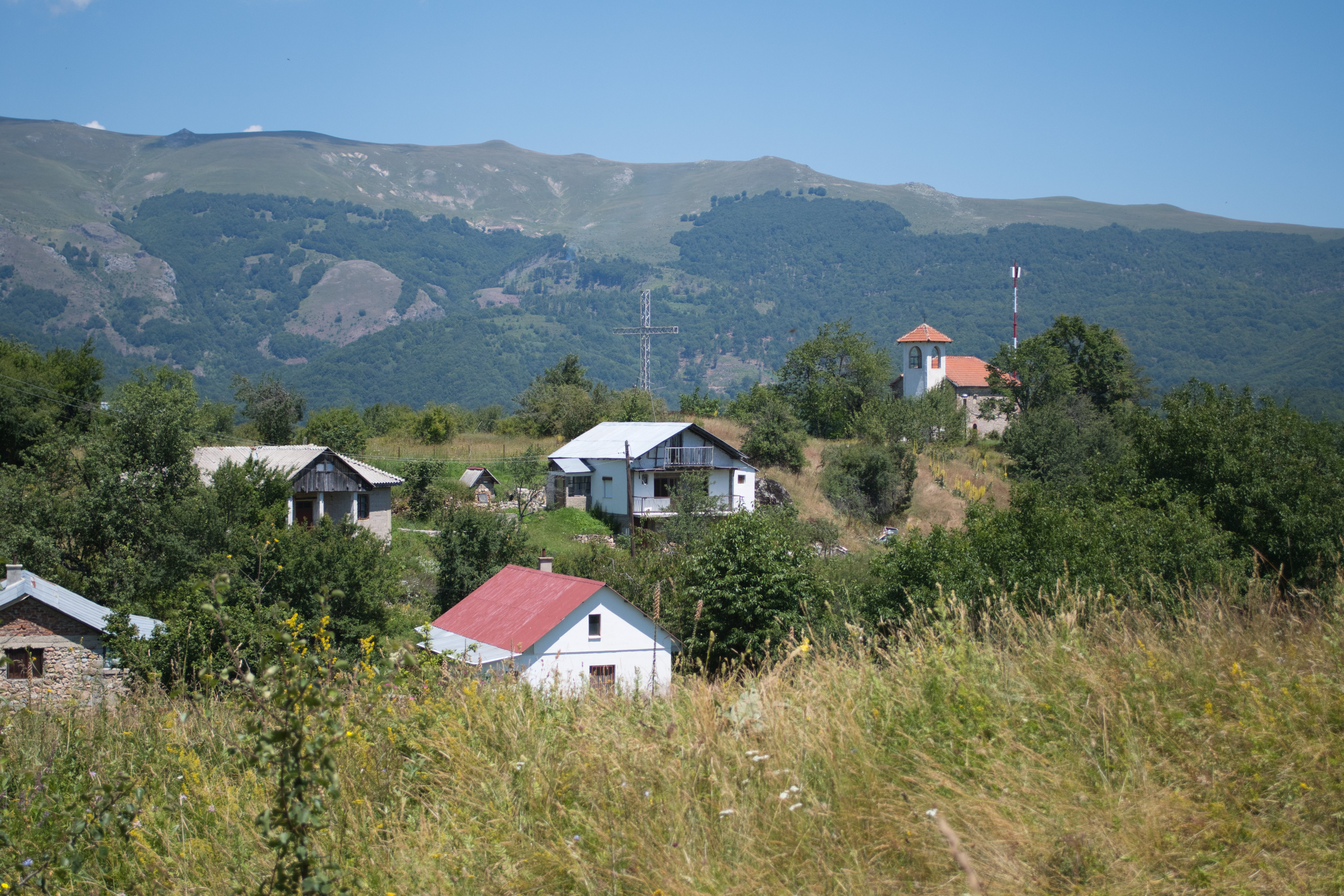 Houses and the Church of Ascension of Christ in the village of Lokov